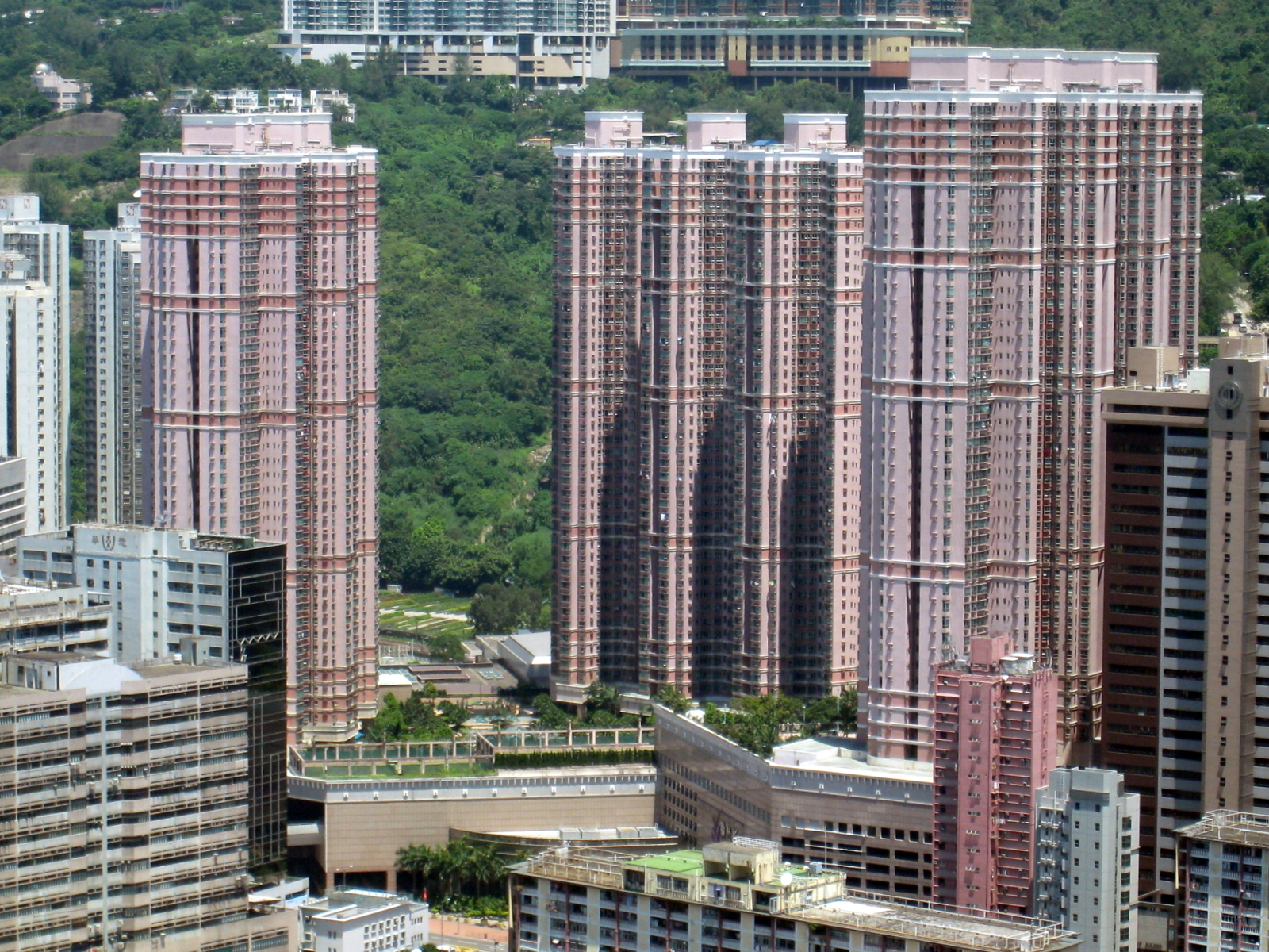 HK Discovery Park Residentional 愉景新城